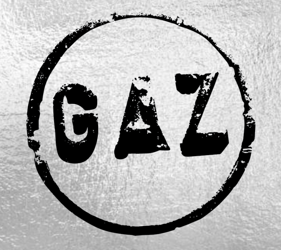 Opera-dystopia GAZ